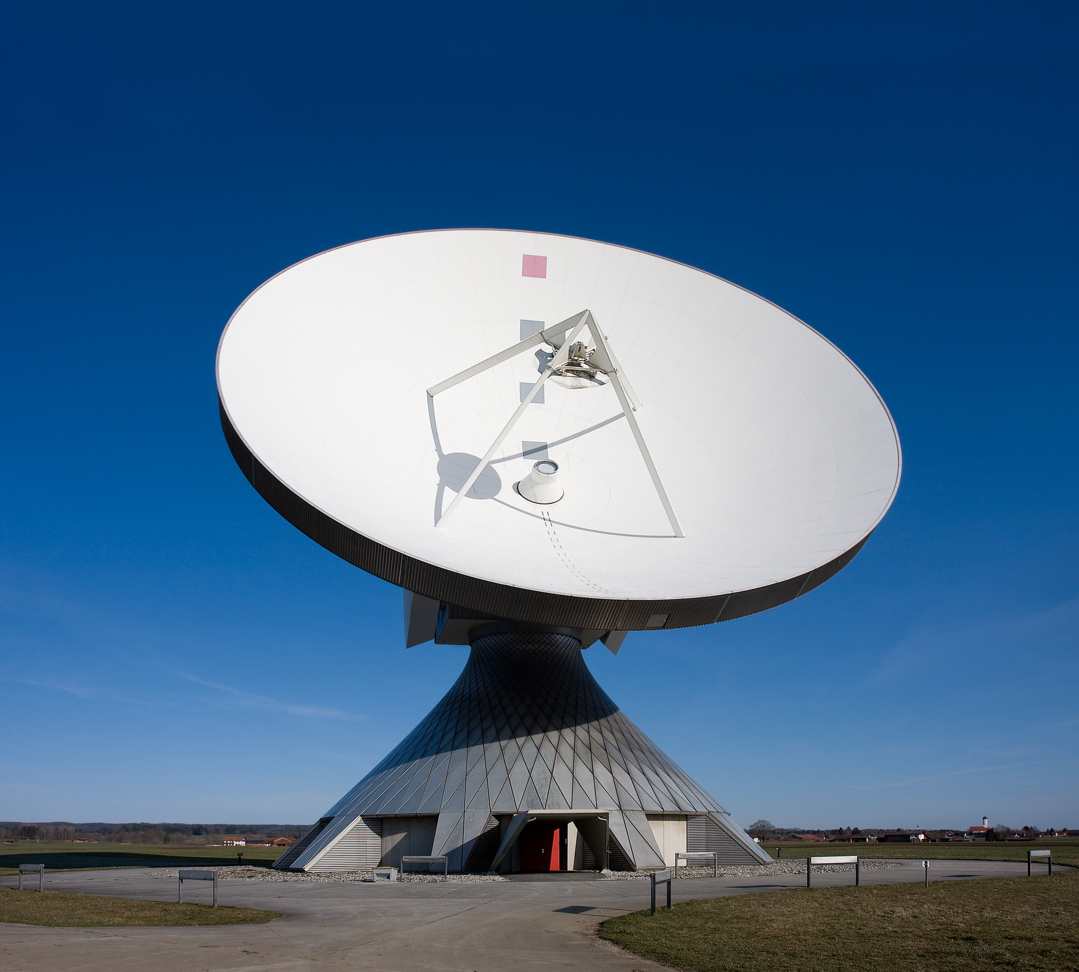 A parabolic satellite communication antenna at the biggest facility for satellite communication in Raisting, Bavaria, Germany. This type of parabolic antenna is called a Cassegrain antenna. The radio waves emerge from the hole in the center of the dish and are focussed on a convex subreflector suspended on the supports in front of the dish. The waves are reflected back toward the main dish, which reflects them forward to form the outgoing beam aimed at the satellite.